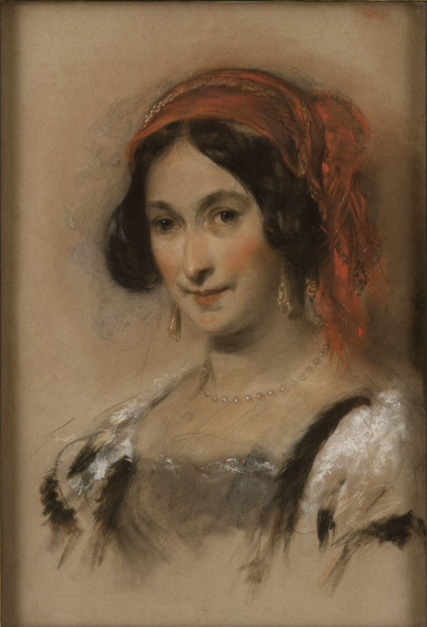 Catherine, Lady Stepney, attributed to John Hayter. All images in this batch have been confirmed as author died before 1939 according to the official death date listed by the NPG.